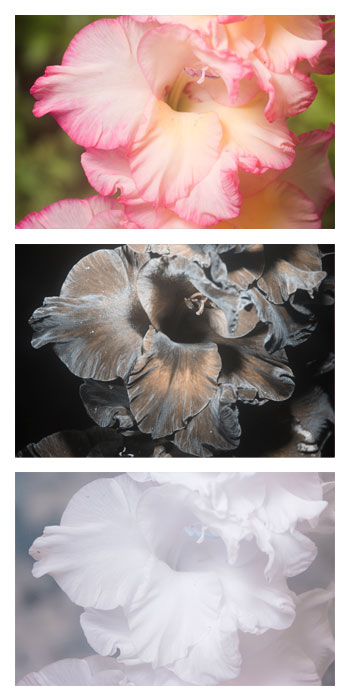 Gladiolus × hortulanus 'Priscilla' flower photographed in visible light (top), ultraviolet (middle), and infrared (bottom). In visible light the flower is pale pink with a yellow centre and deeper pink edges. In ultraviolet light the area near the edge of the petals appears quite dark. The centre of the flower (roughly corresponding to the pale yellow area in visible light) also appears dark. In infrared light the flower does not have much difference in tone across its petals, appearing very plain.